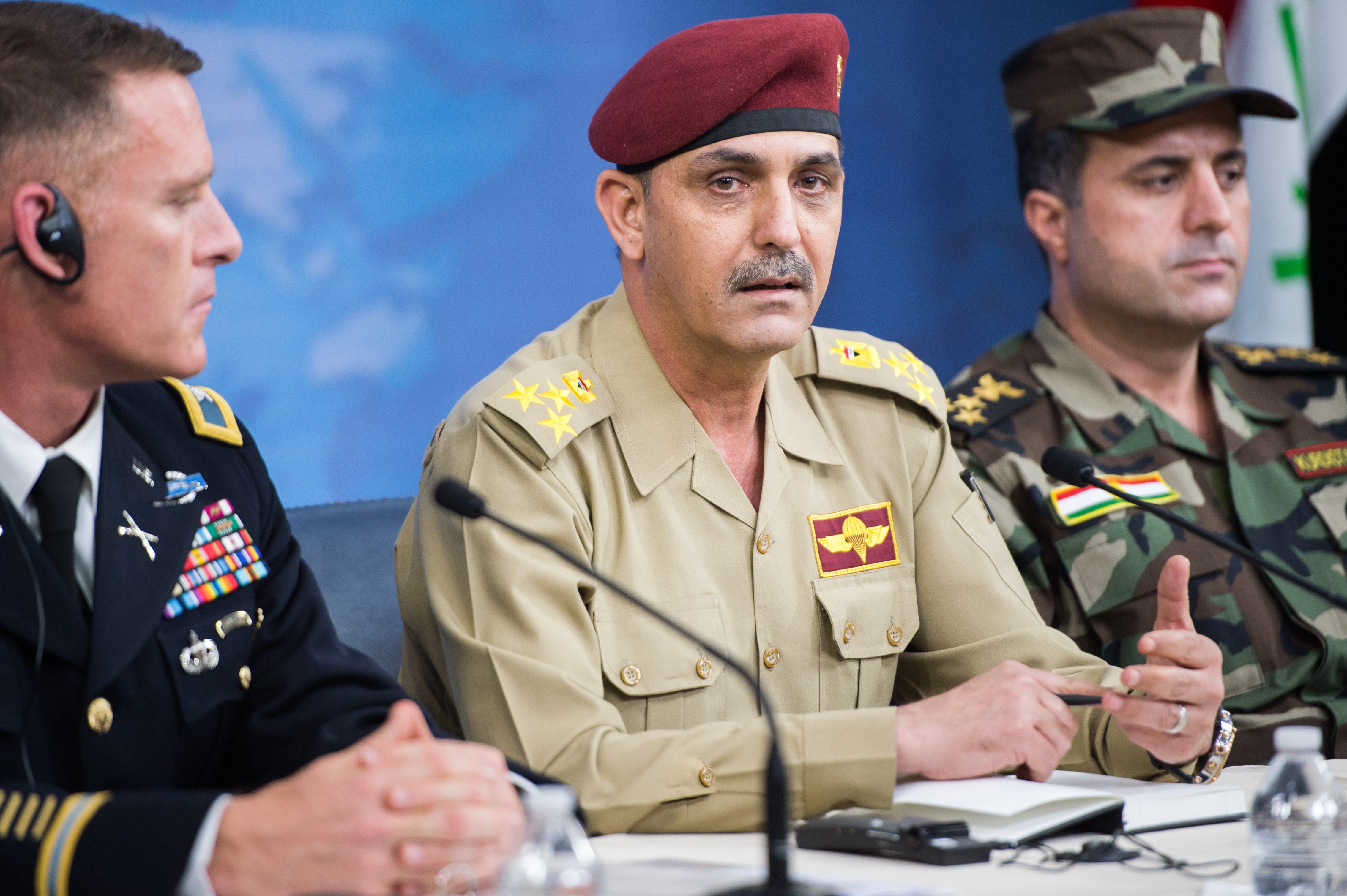 Operation Inherent Resolve spokesman U.S. Army Col. Ryan Dillon and spokesmen for the Iraqi Security Forces brief the media on the Liberation of Mosul in the Pentagon Press Briefing Room, Washington, D.C., July 13, 2017. (DOD photo by U.S. Army Sgt. Amber I. Smith)